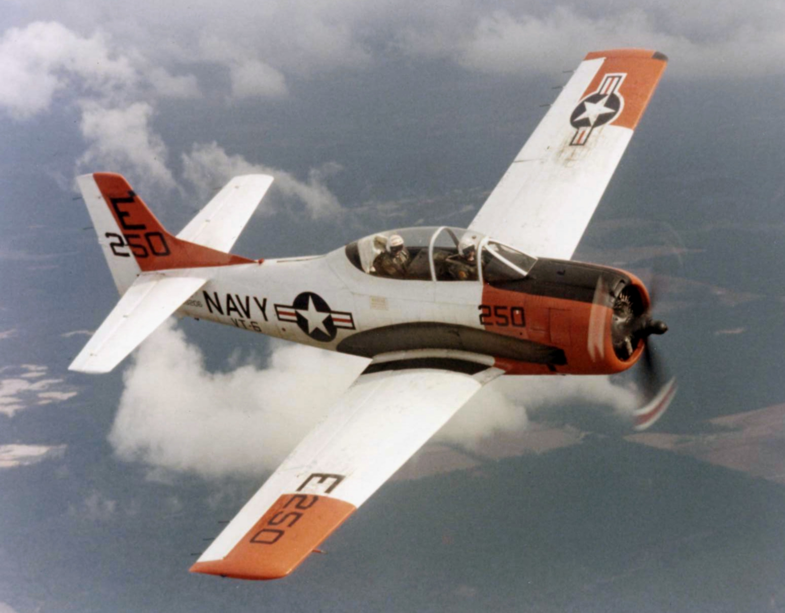 A U.S. Navy North American T-28B Trojan (BuNo 138206) of Training Squadron VT-6 in flight.